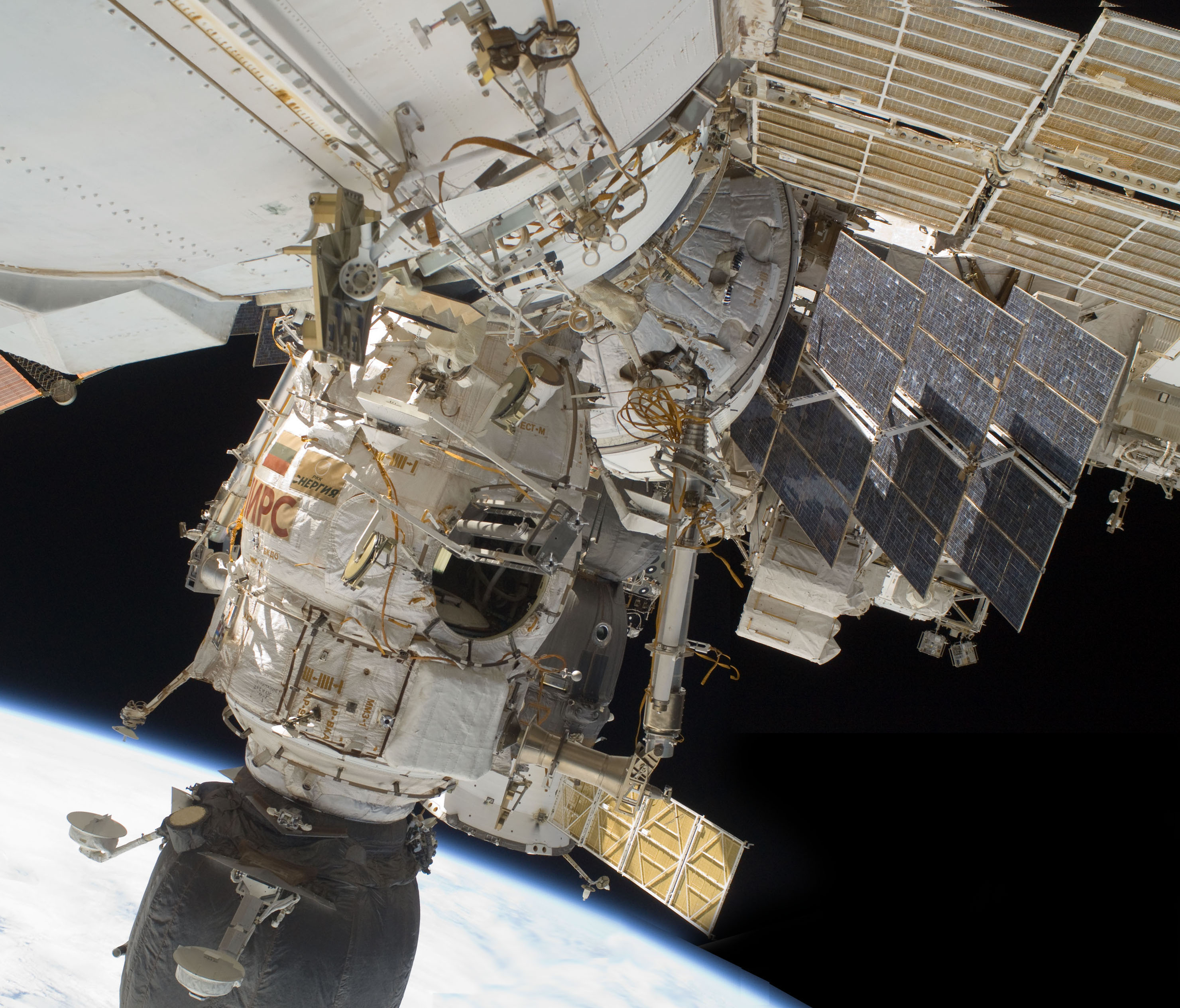 Composite of ISS Images of the Pirs taken during a March 2009 EVA